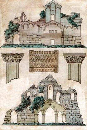 Bagrati Cathedral. Original steel engraving. Lemaitre direxit. Hand watercolored. 1838